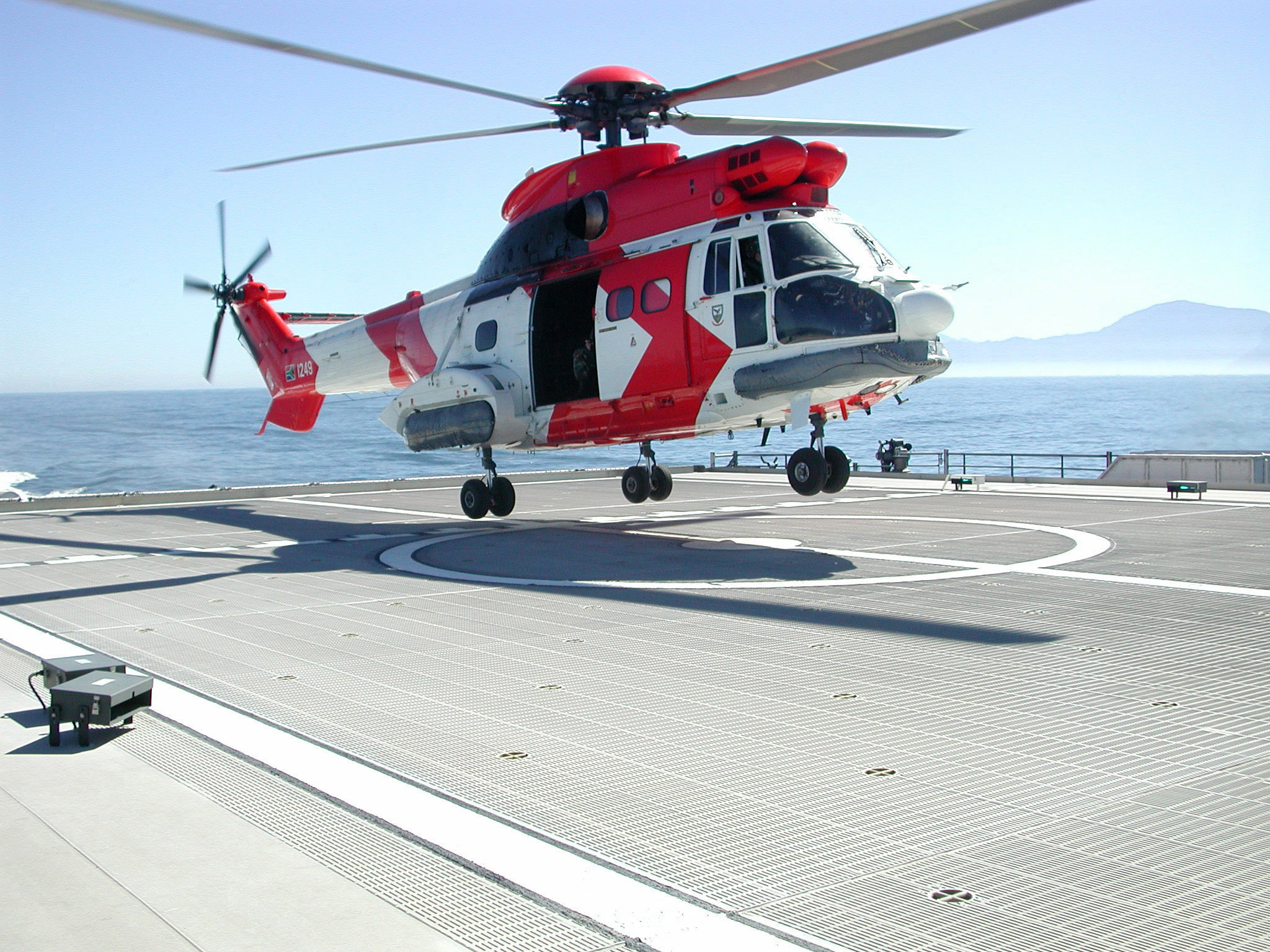 A South African Atlas Oryx Oryx M2 Helicopter landing aboard HSV-2 Swift